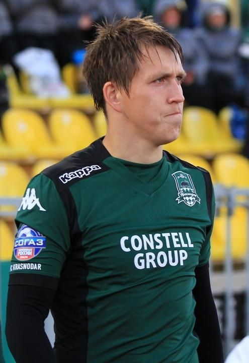 Sergei Petrov with FC Krasnodar before a game against PFC CSKA Moscow.